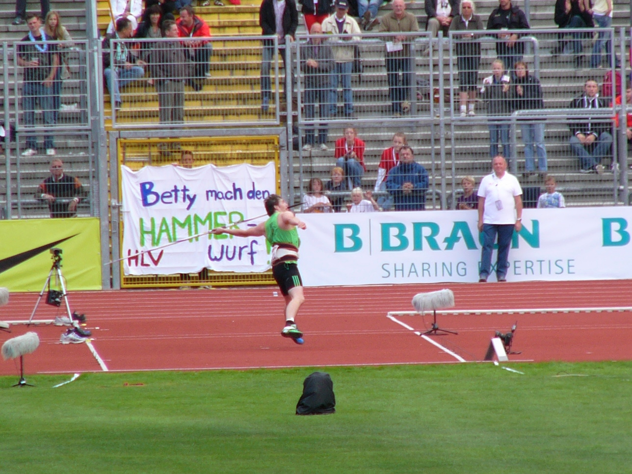 Matthias de Zordo at the 2011 German Athletics Championships in Kassel